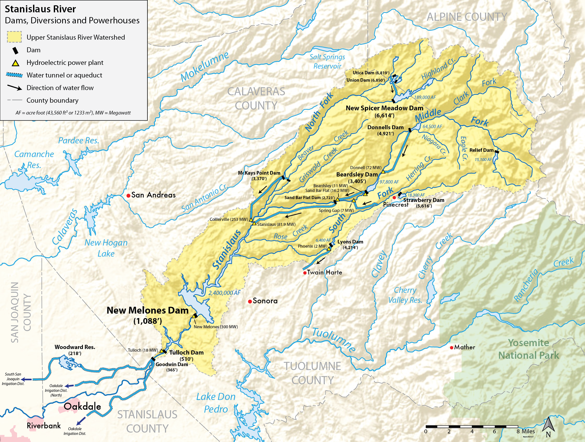 A detailed map of hydropower projects in the upper Stanislaus River, California. Made using USGS data.